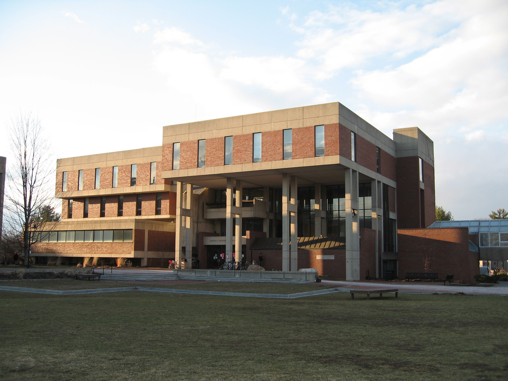 Photo of the Hampshire College library.